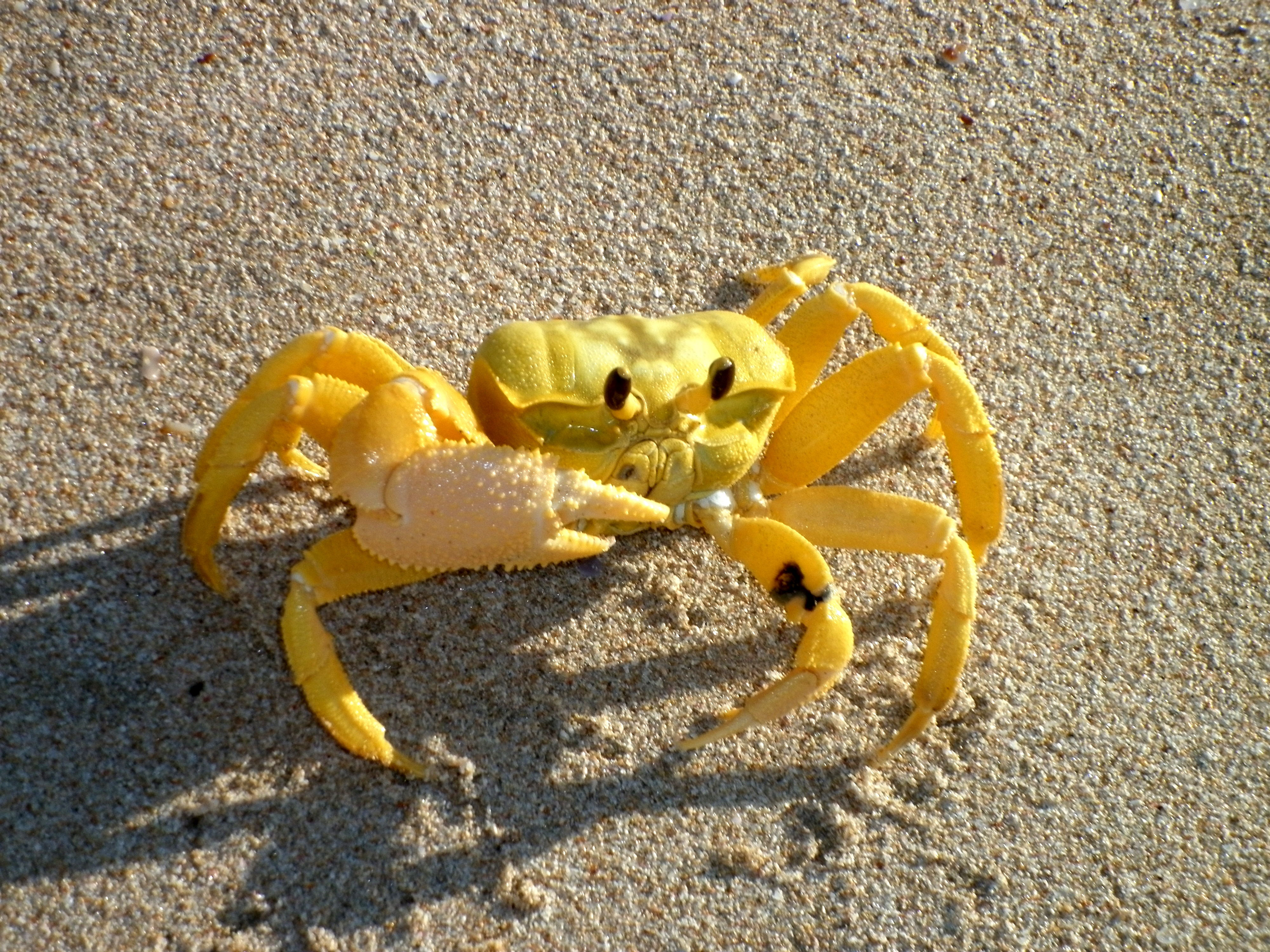 Ghost crab (Ocypode convexa), Gnaraloo Bay Rookery